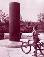 picture of 1939 Westinghouse Time Capsule marker